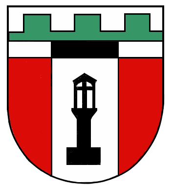 Coat of arms of Plascheid